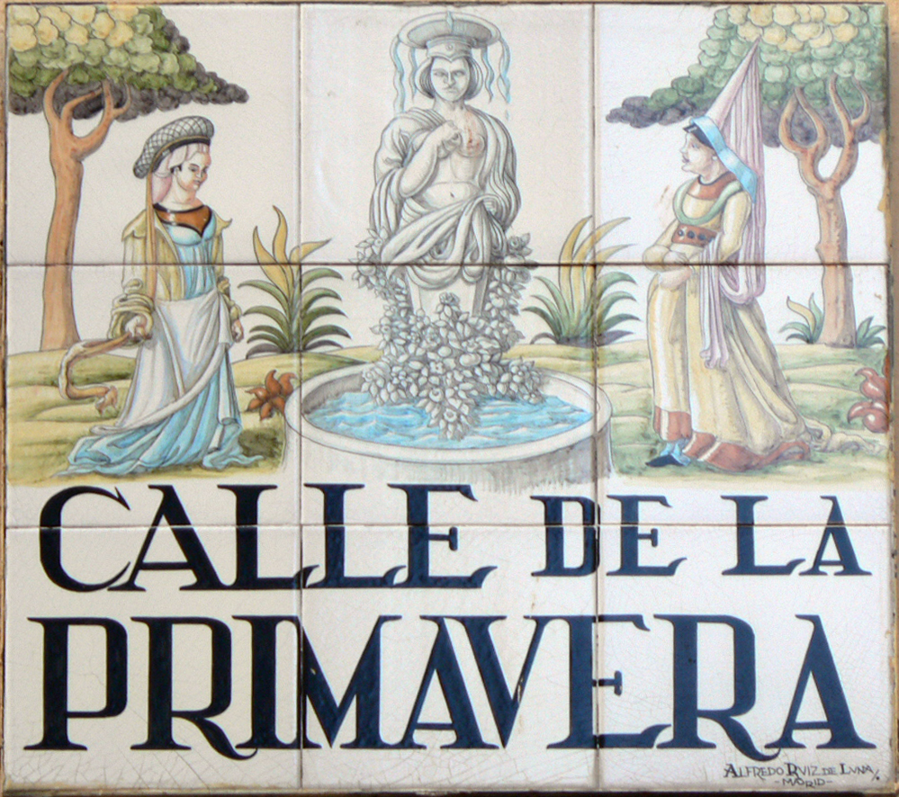 Sign of Calle de la Primavera (street, Centro district) in Madrid (Spain).